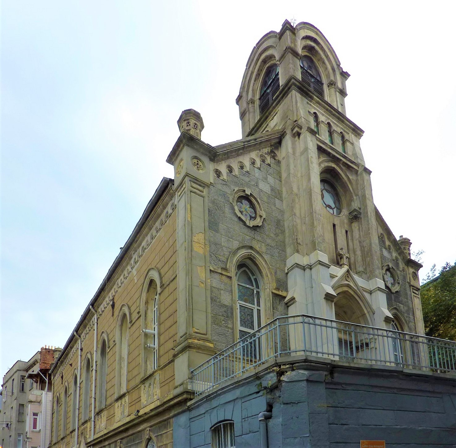 Armenian Evangelical Church, Istanbul